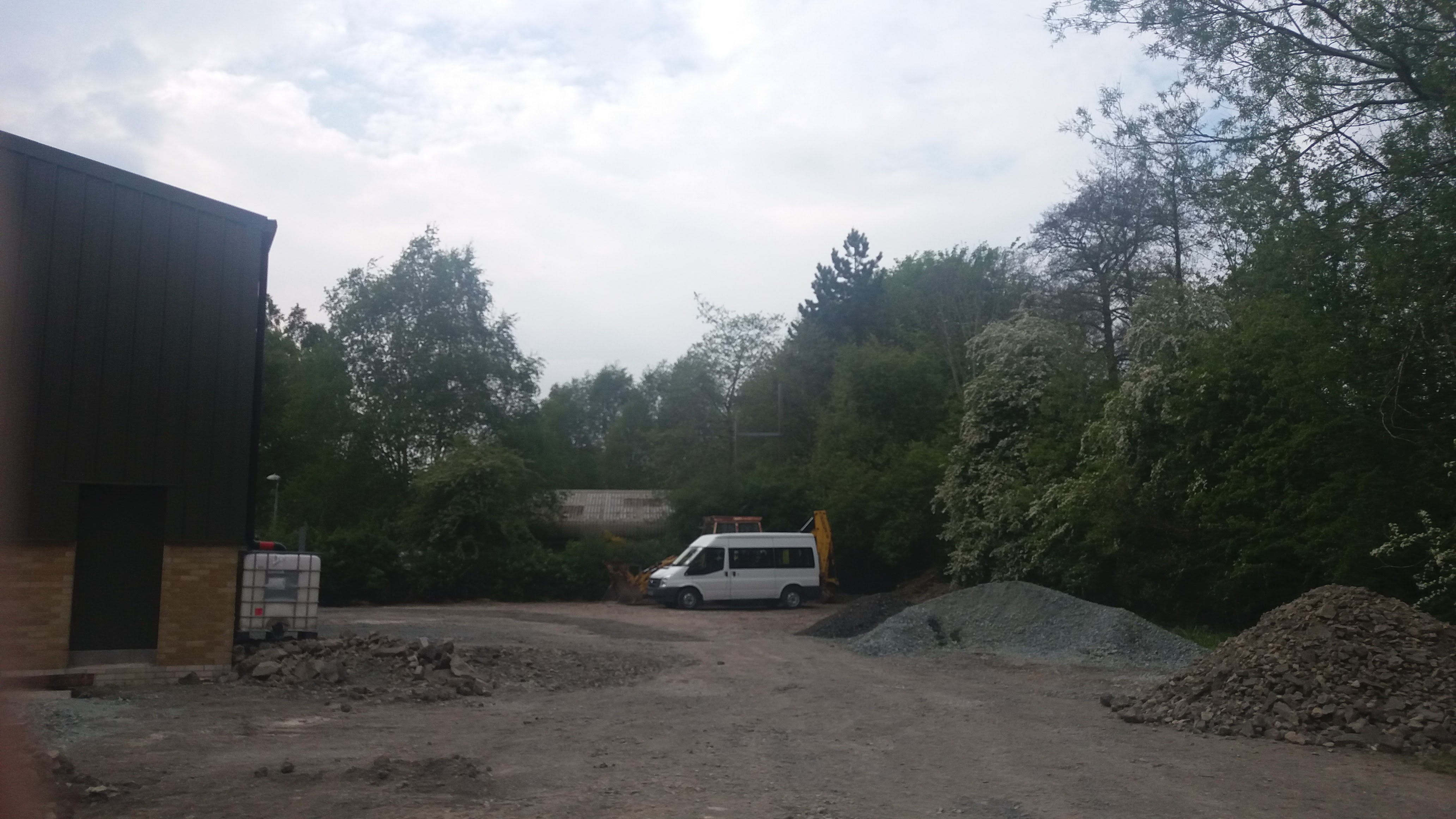 My Own.